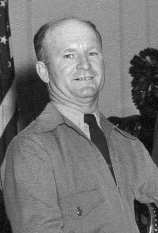 Carl Crim with American Flag